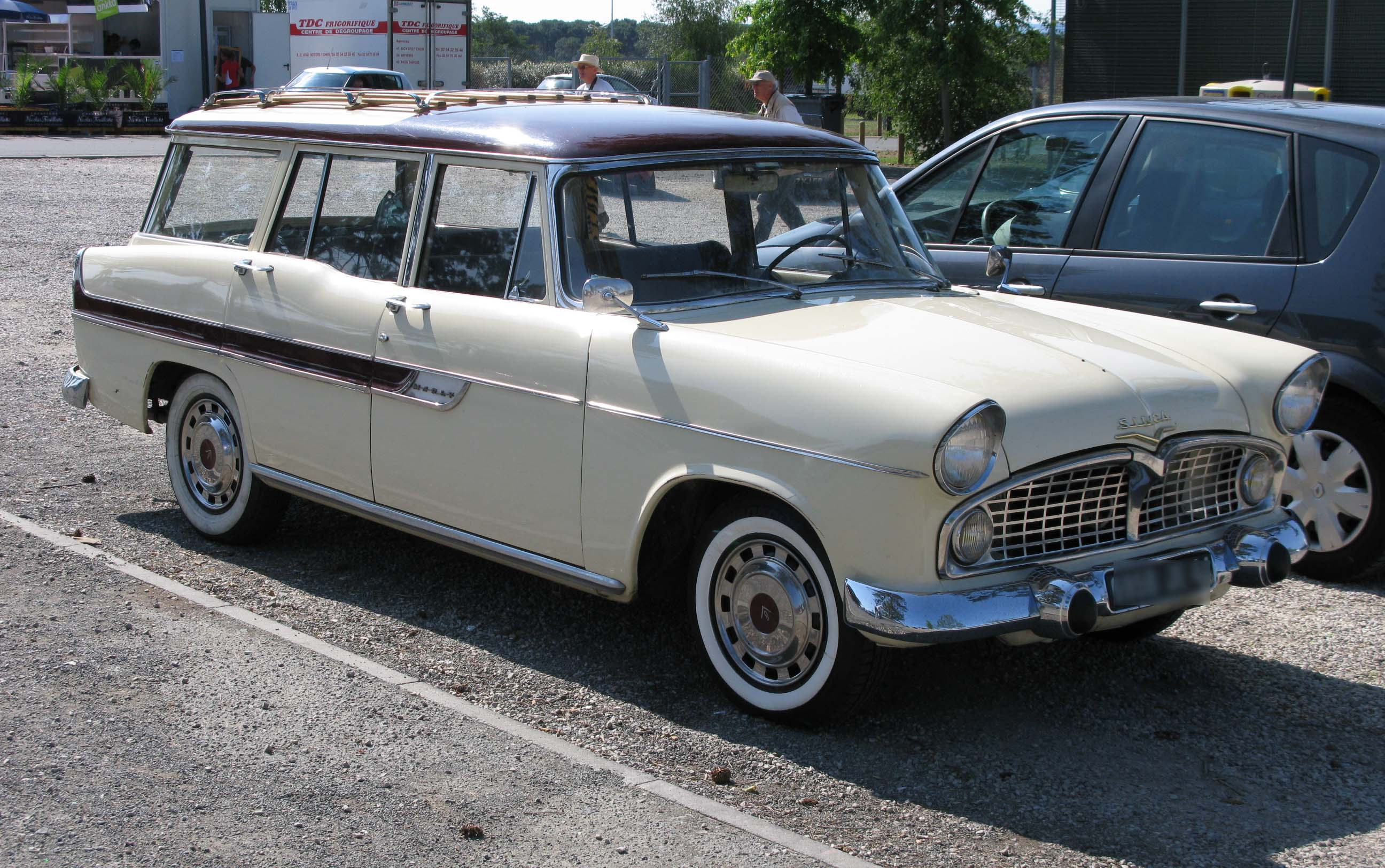 Simca Vedette Marly.Event: 2011 LM Story, Circuit Bugatti, Le Mans